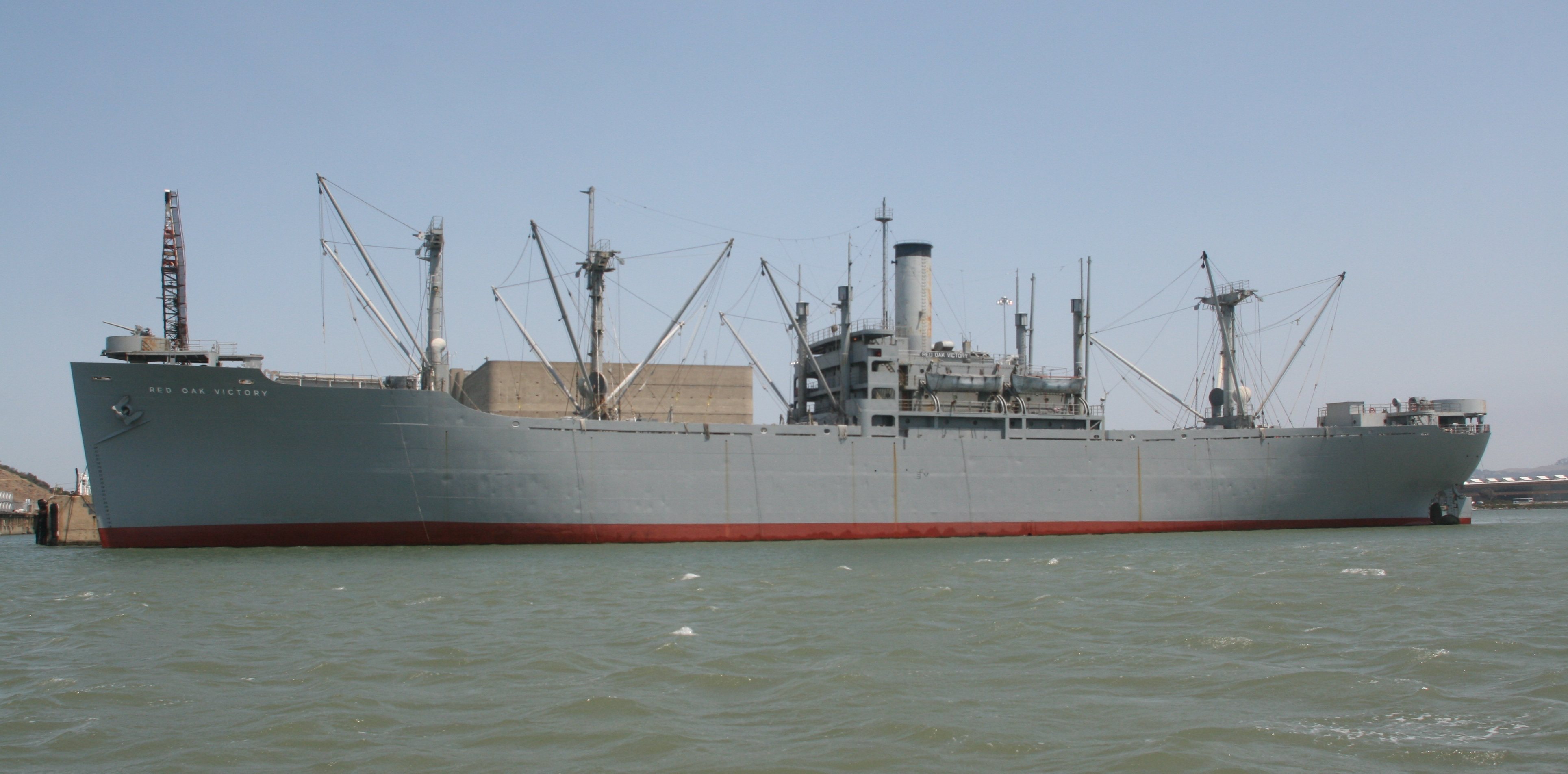 At the time of this image the ship "Red Oak Victory" is the only operational Victory class ship in the world. Used extensively during World War II for transport of various goods it was a faster and longer range successor to the earlier Liberty class, with about the same capacity. The hull was recently refurbished and painted. Image 20 July 2013.